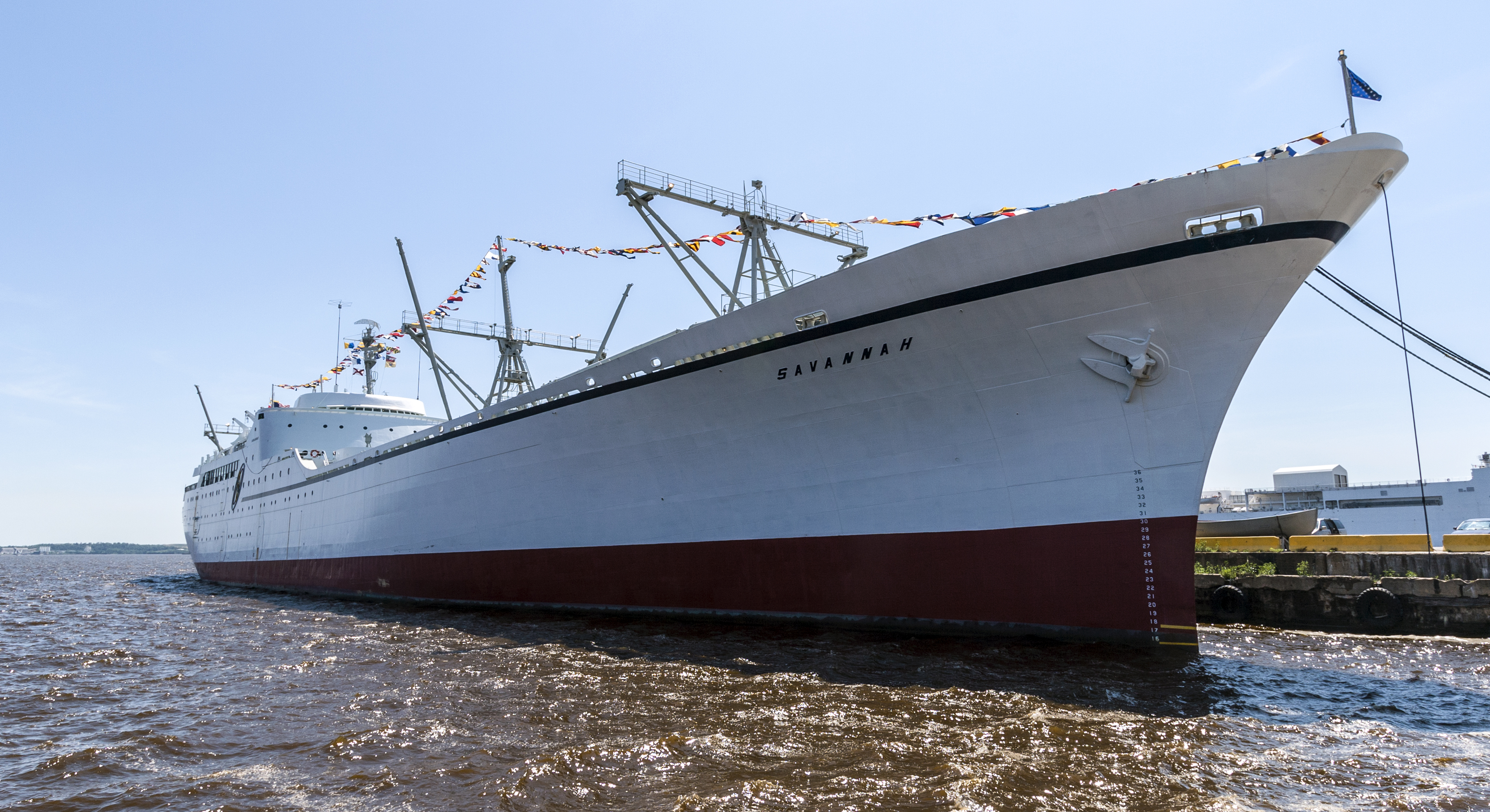 NS Savannah at Pier 13, Baltimore, Maryland, USA